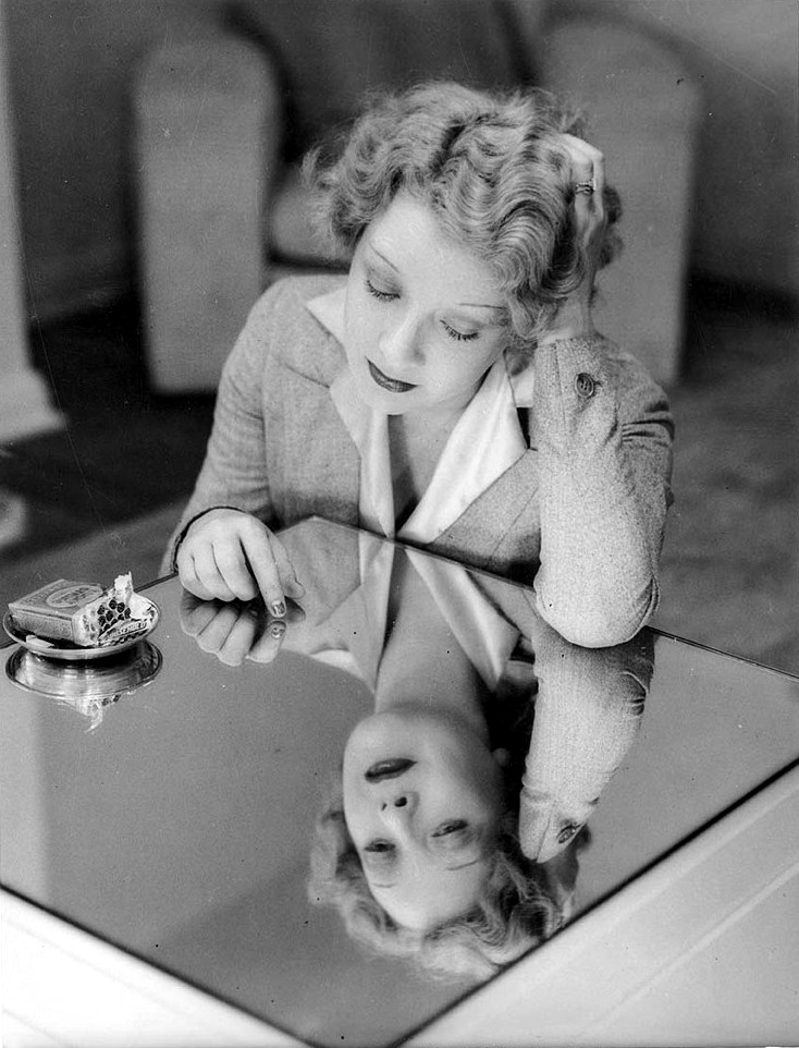 Photo of Helen Twelvetrees by Sam Hood, from the collections of the Mitchell Library, State Library of New South Wales